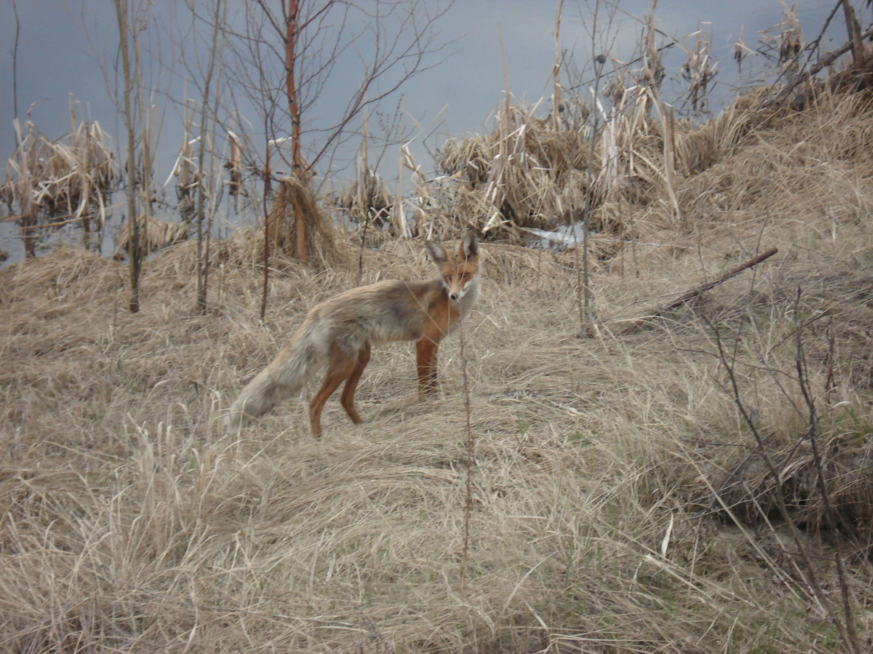 Fox was greeted by the lake, near the town Langepas